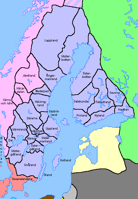 map of swedish administrative divisions in 1560